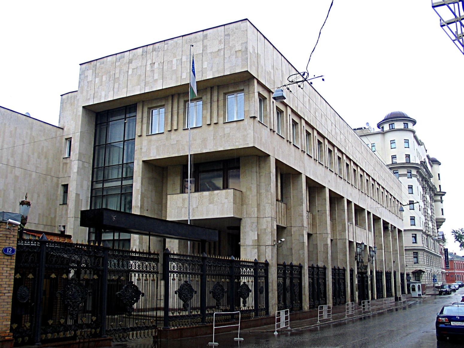 Embassy of Uzbekistan in Moscow (Pogorelsky Side Street, 12)